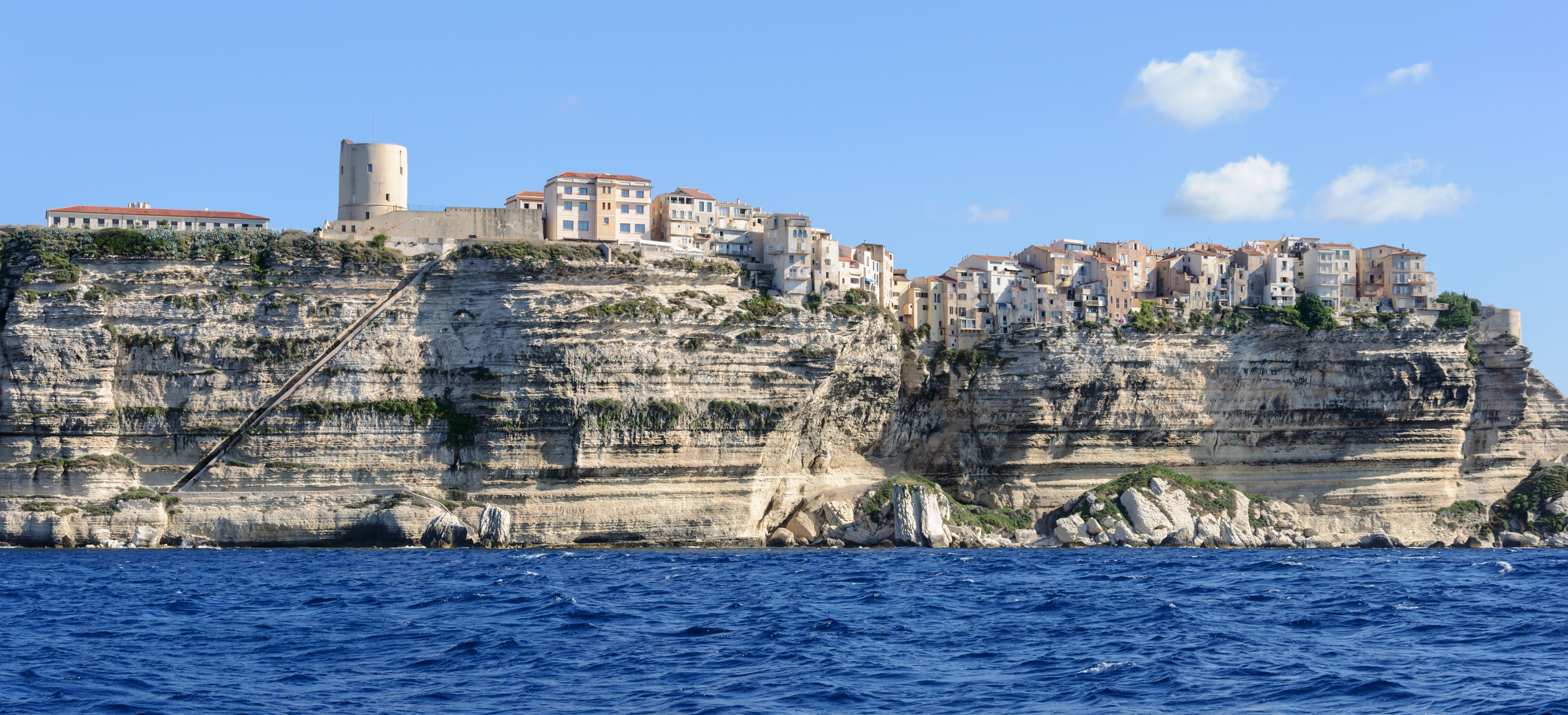 The cliffs of Bonifacio, Corsica, France, with the King of Aragon staircase carved into the rock.